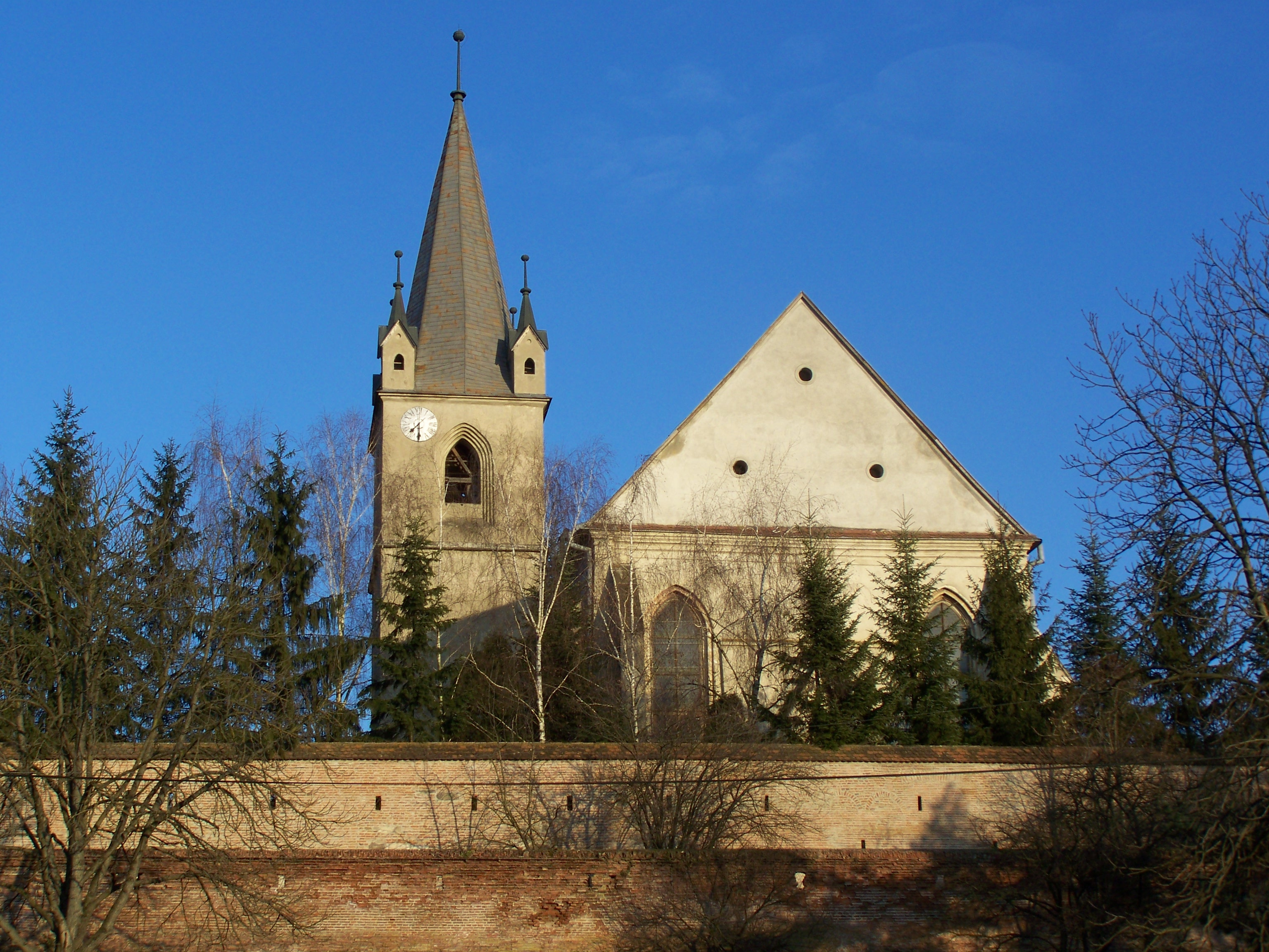 The Reformed City Fortress church of Târgu Mureş